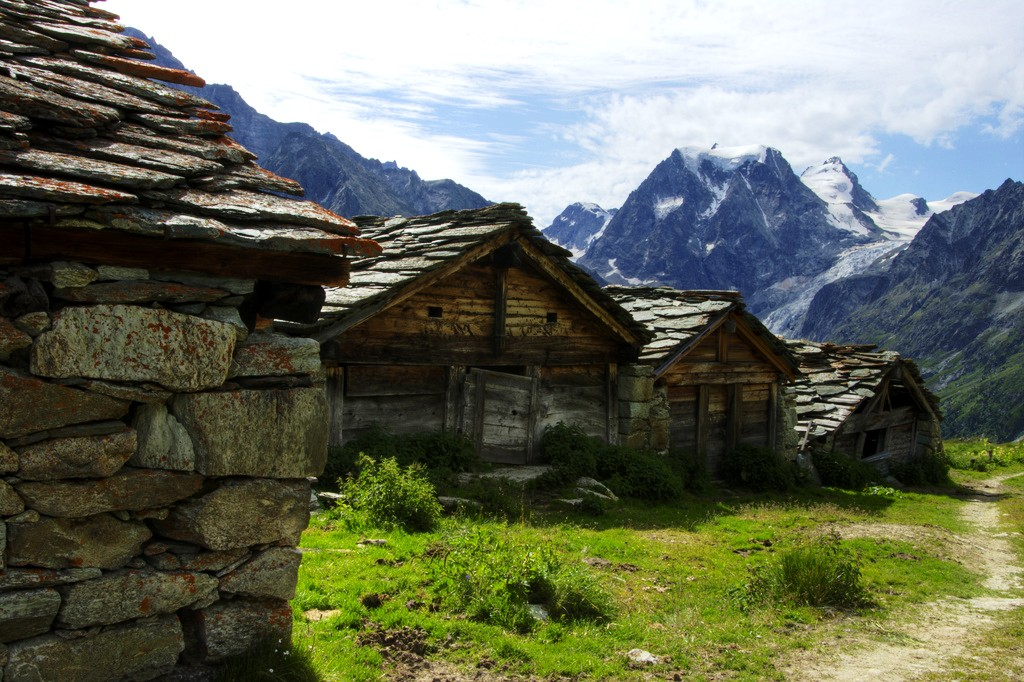 Above Arolla, view over Mont Collon and L'Evêque